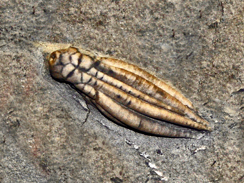 Fossil of Scytalocrinus from Carboniferous of United States, on display at the Museo Civico di Storia Naturale di Milano